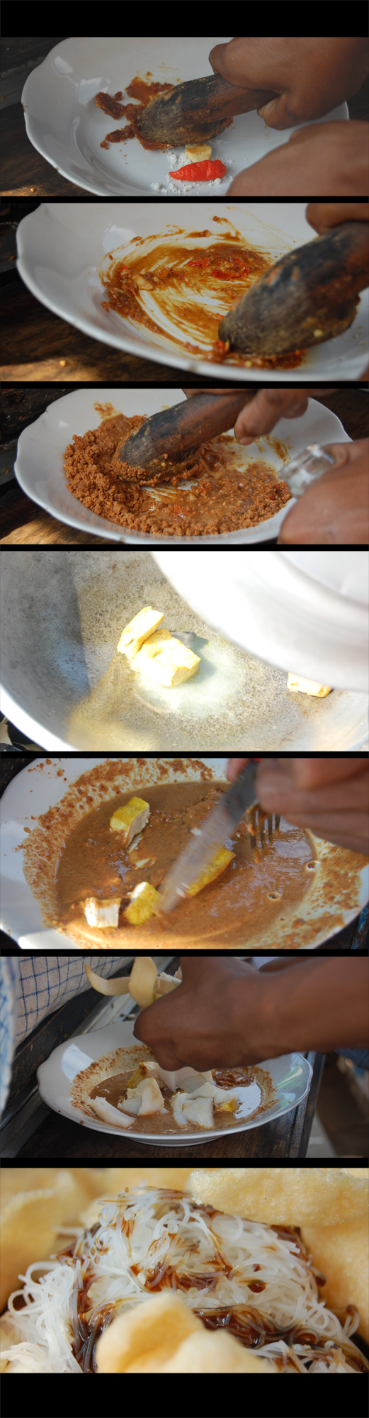 The making of ketoprak